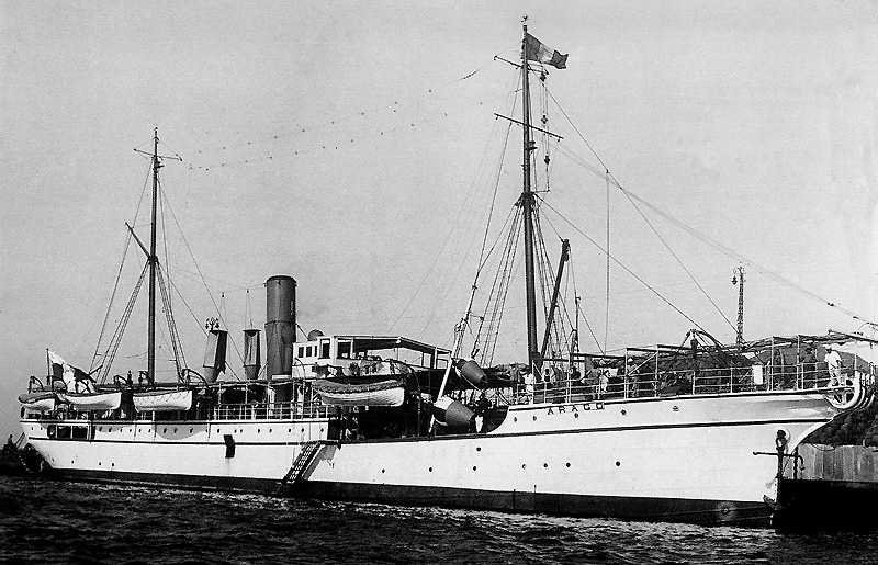 The french cableship "Arago" in 1914.